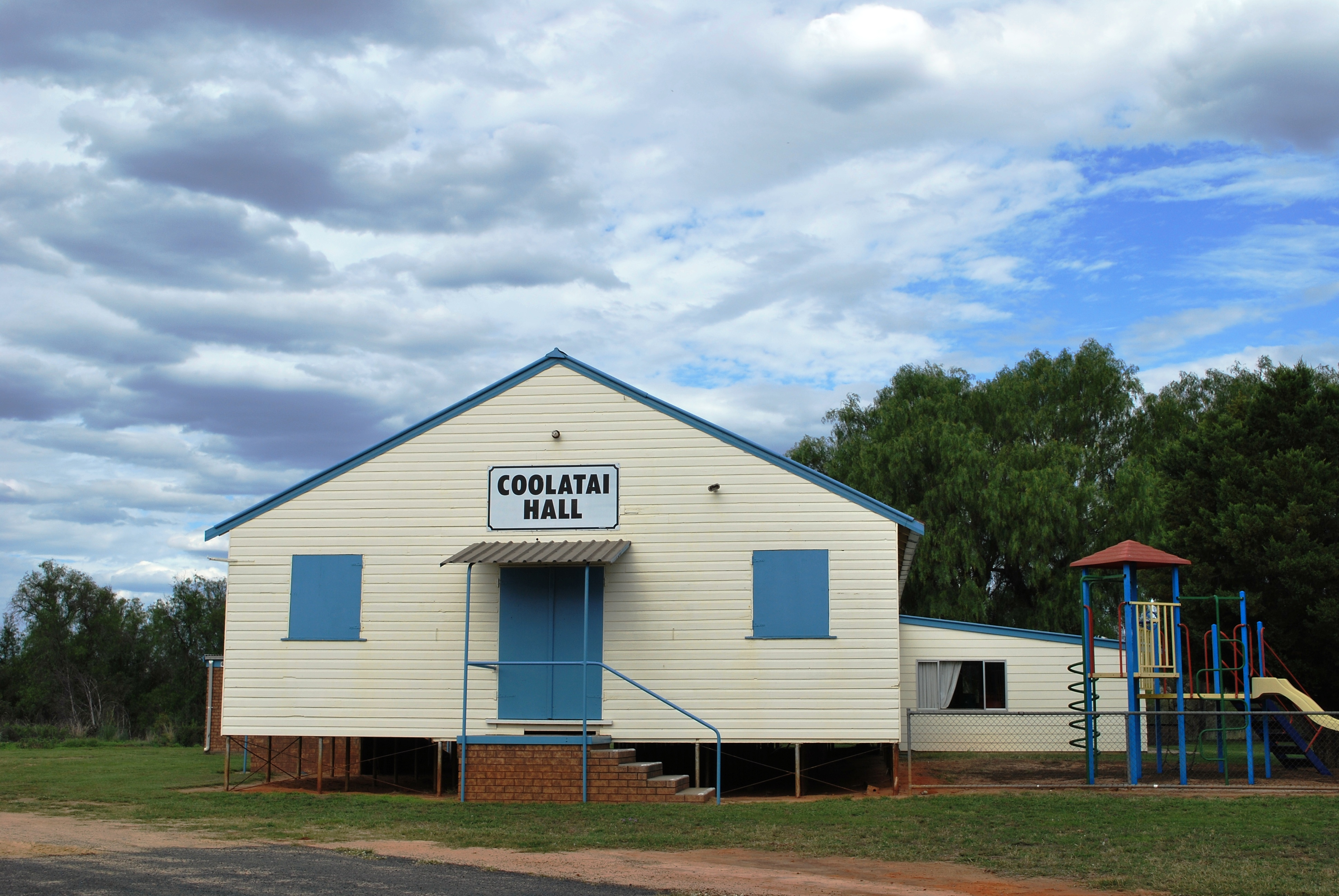 Public hall at Coolatai, New South Wales